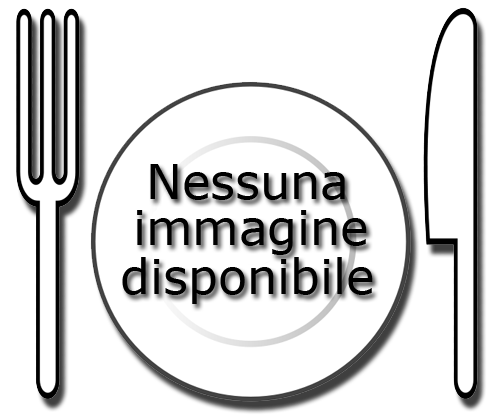 Says "No image available" in Italian. See also Image:Foodlogo2.svg